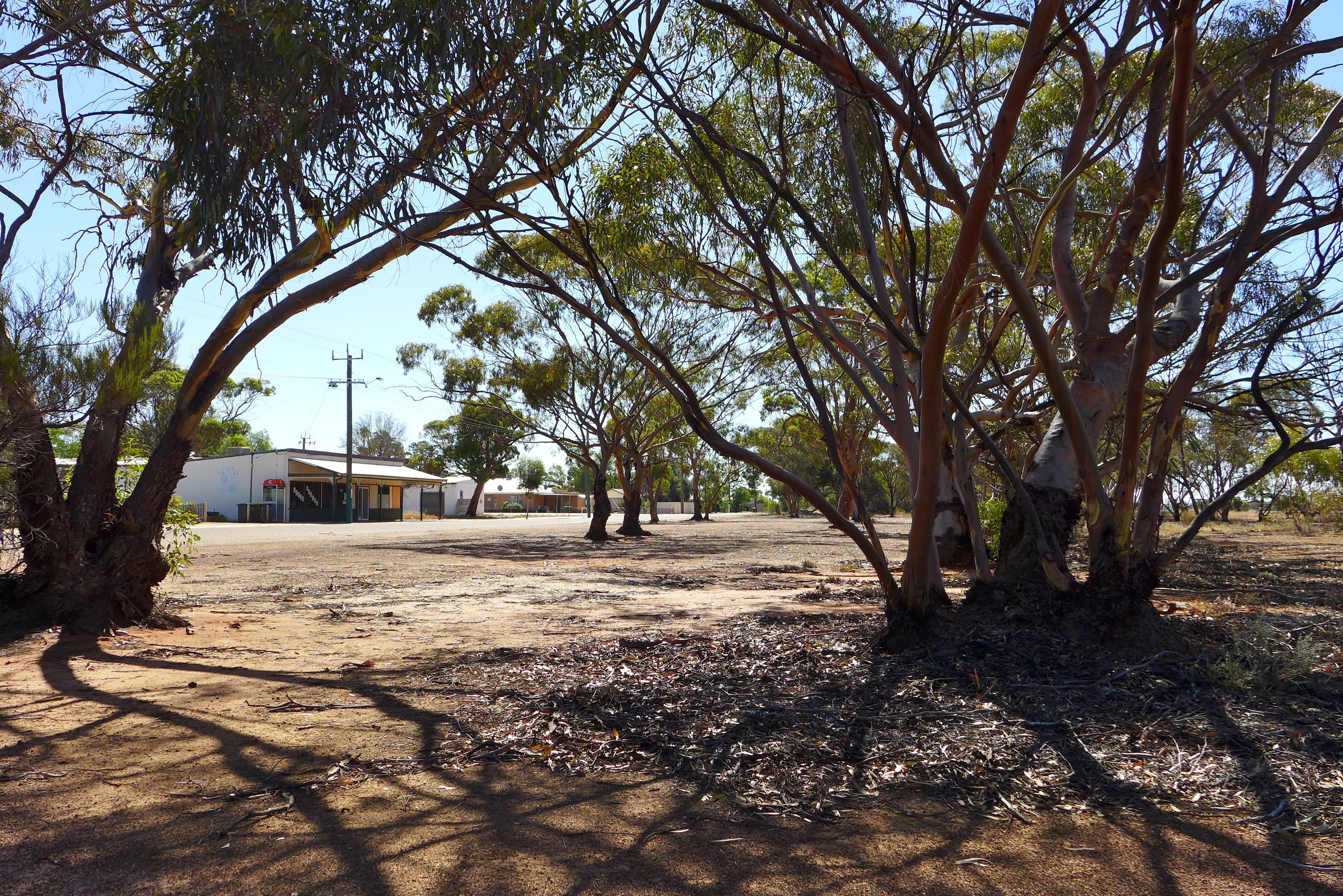 View of Lindsay Street, Beacon, Western Australia.